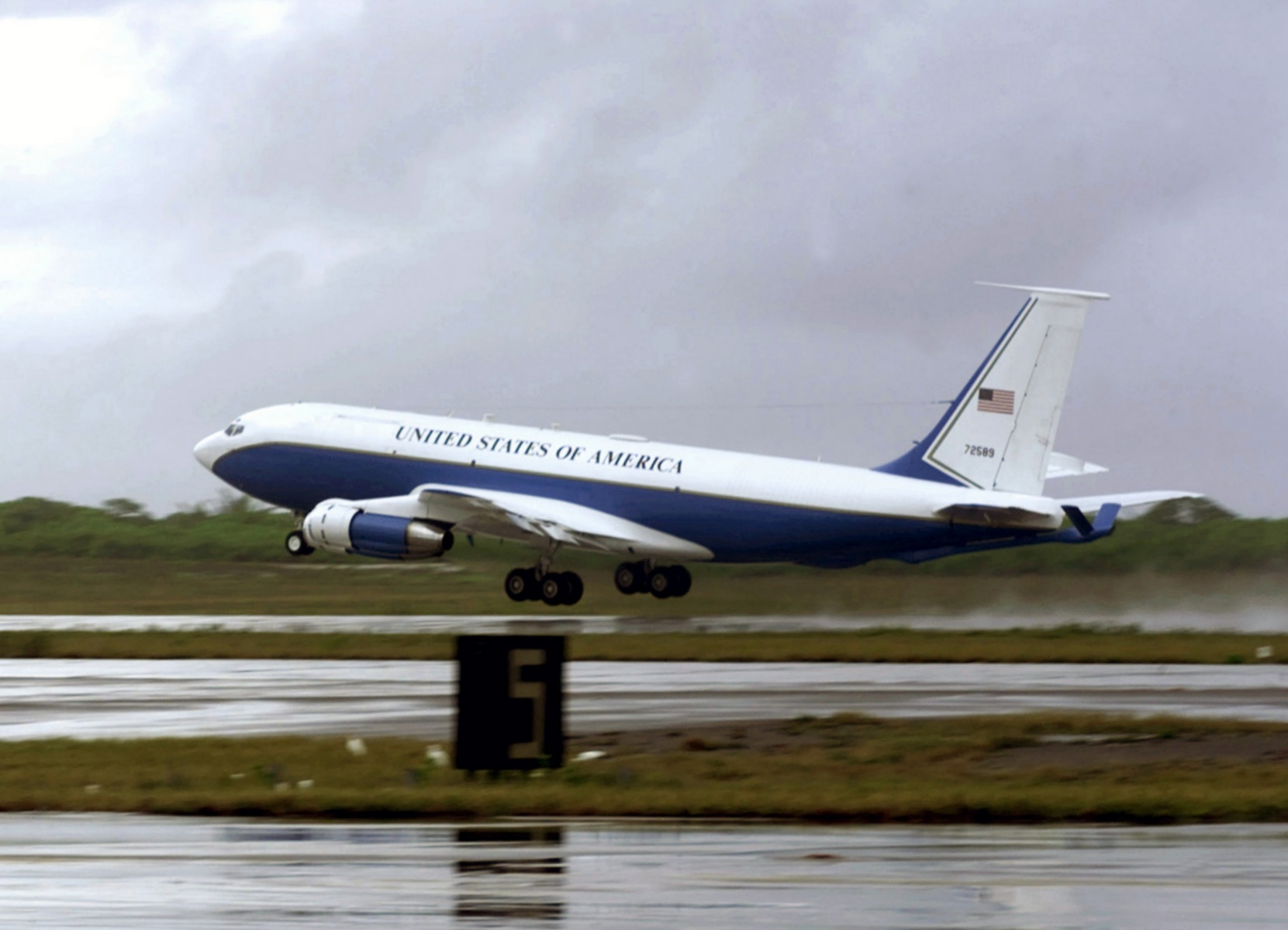 A U.S. Air Force Boeing VC-135E (s/n 57-2589) takes off from Diego Garcia carrying General William J. Bergert, USAF, Commander Pacific Air Forces, on 14 October 2001. General Bergert visited USAF personnel assigned to the 28th Air Expeditionary Wing deployed to Diego Garcia in support of operation "Enduring Freedom". 57-2589 had originally been delivered as a KC-135A-BN Stratotanker (note refueling boom). It was later converted to an VC-135A and was used as the personal transport of CinC of Pacific Air Forces. After an avionics upgrade (Pacer CRAG) it was used as personal transport of USAF the Chief of Staff. This aircraft has the traditional nickname "Speckled Trout" (previously C-135C 61-2669).